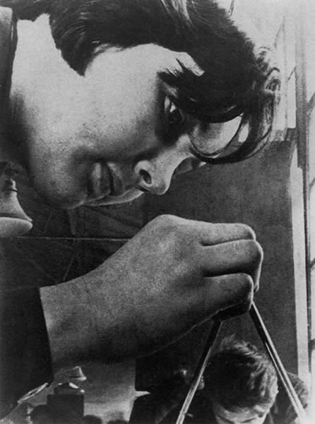 A female student in 1934 .